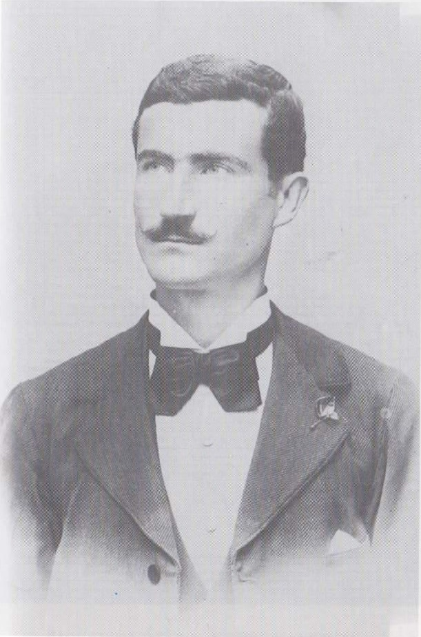 Nikola Karandzhulov